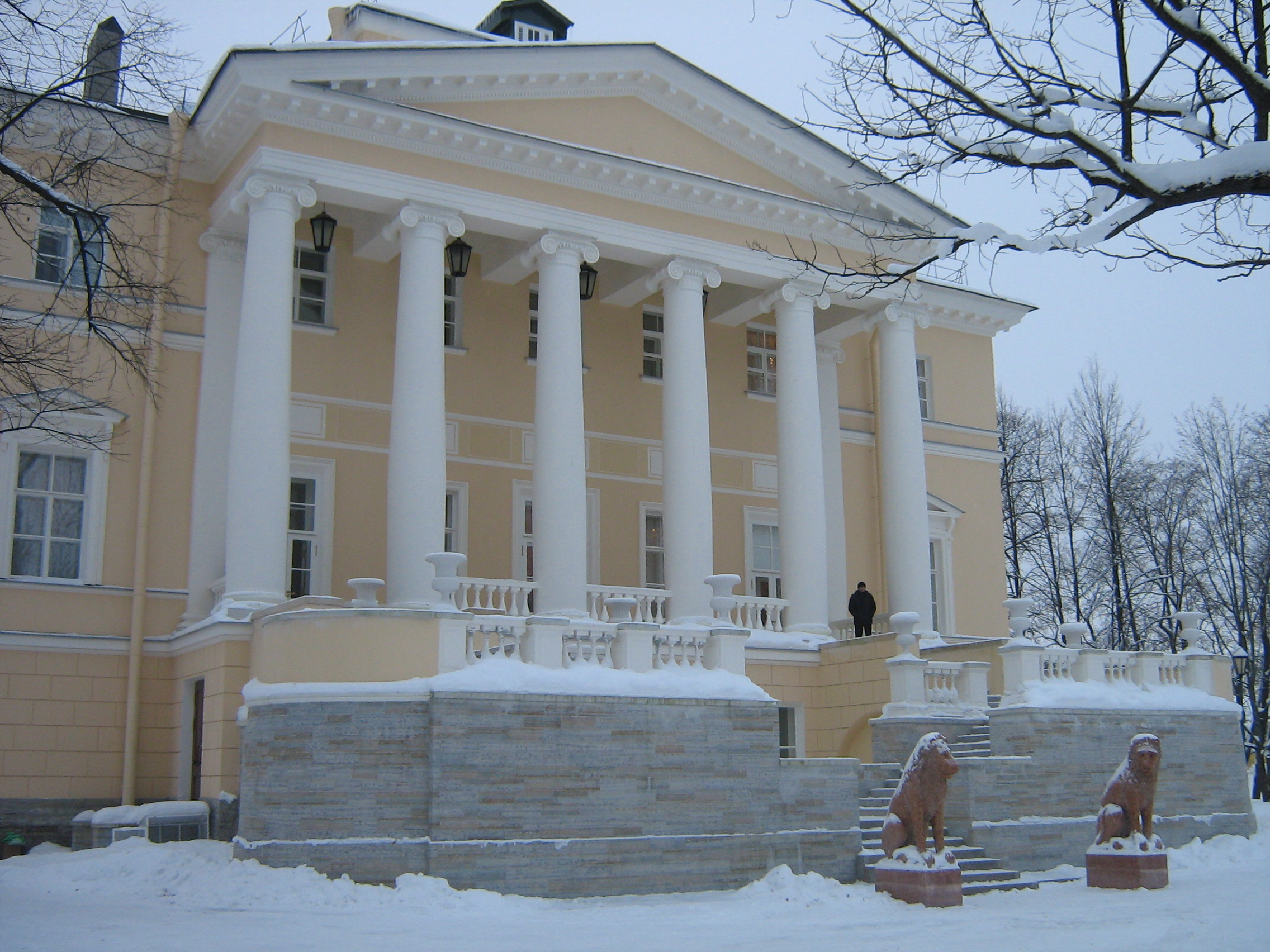 Saint Petersburg (Russia), town Pushkin.